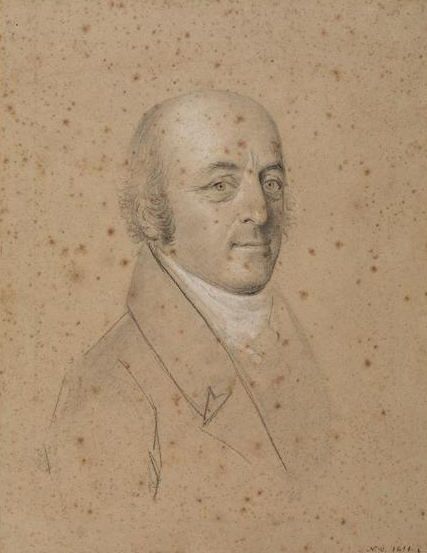 José Aleixo Falcão de Gamboa Fragoso van Zeller (1762-1835), a Portuguese entrepreneur and militaryman